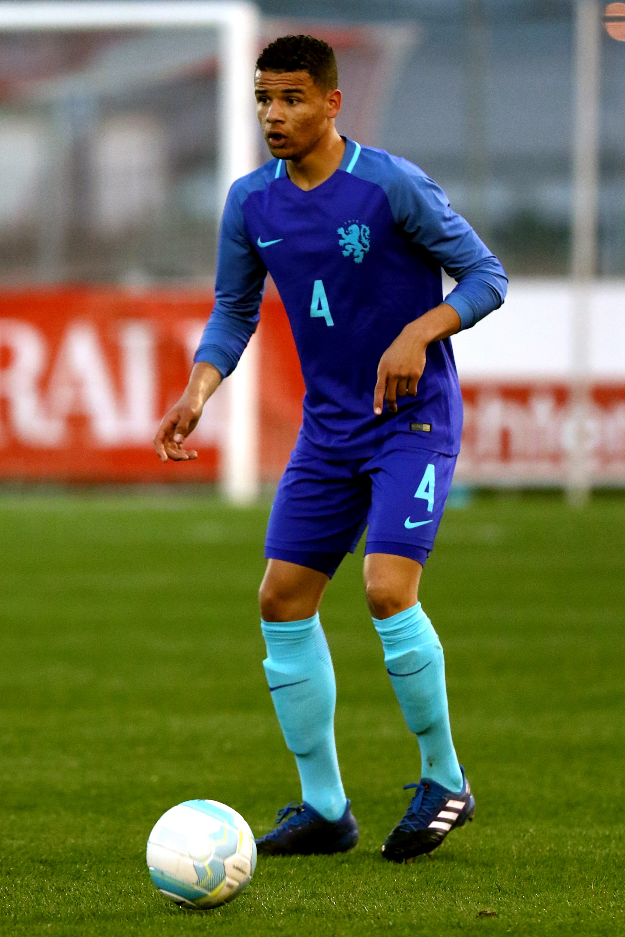 Friendly match Austria national under-18 football team (red shirts) vs. Netherlands national under-18 football team (blue shirts) 1–1 (1–0) on 2017-03-23 in Eggendorf – The photo shows Armando Obispo (PSV Eindhoven U19).